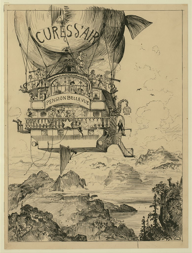 "Cures d'air dans la montagne" by French illustrator and science fiction writer Albert Robida (1848-1926). Library of Congress description: "Drawing shows an airship "Cures d'air" supporting the "Pension Bellevue" for individuals requiring medical care and floating above a mountainous region. One of the artist's conceptions for his book on life in the upcoming twentieth century. Published in "Le Vingtième Siècle" by Albert Robida. Paris : G. Decaux, 1883, facing p. 353."